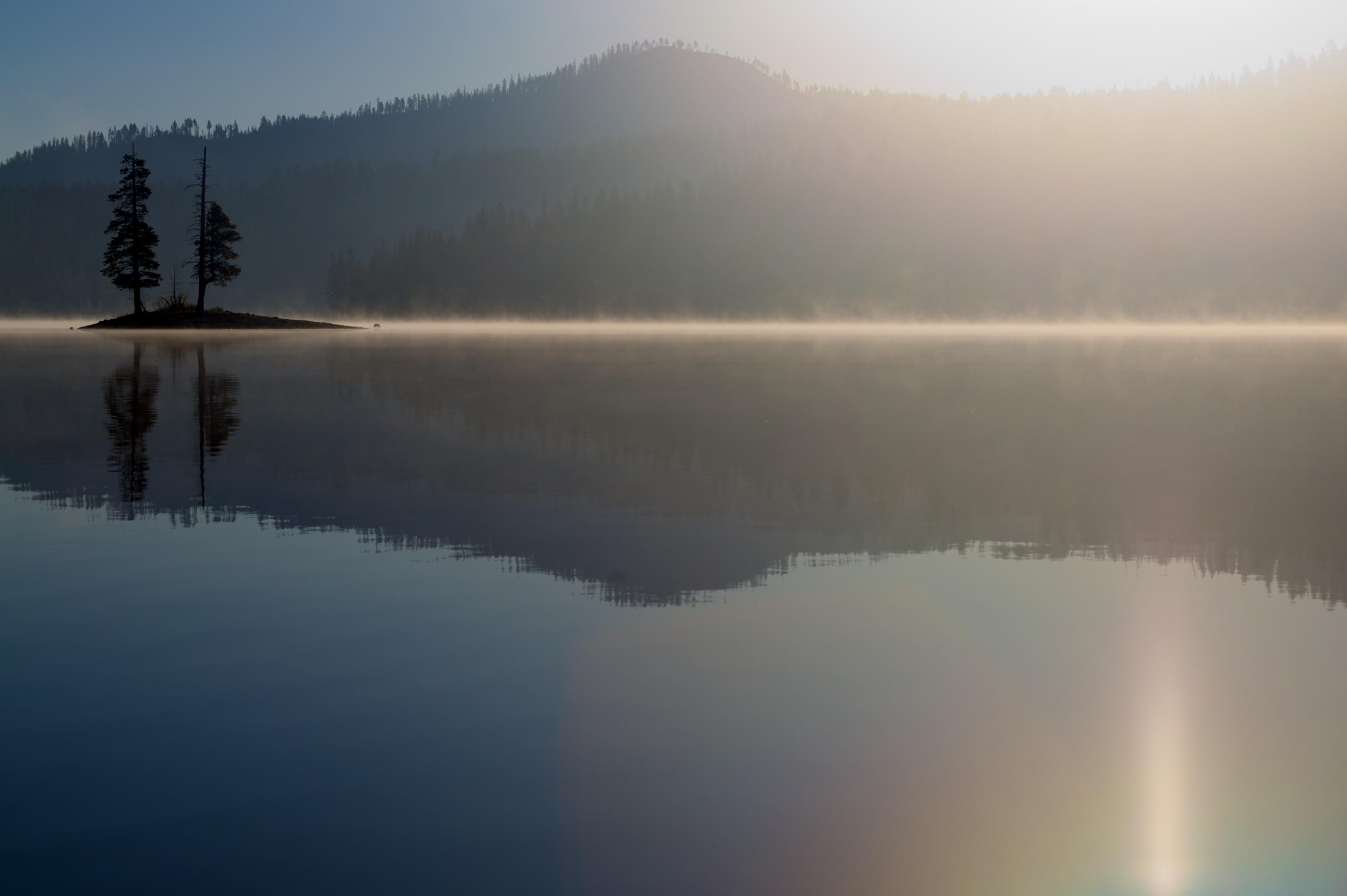 Mist on Snag Lake, Lassen Volcanic National Park